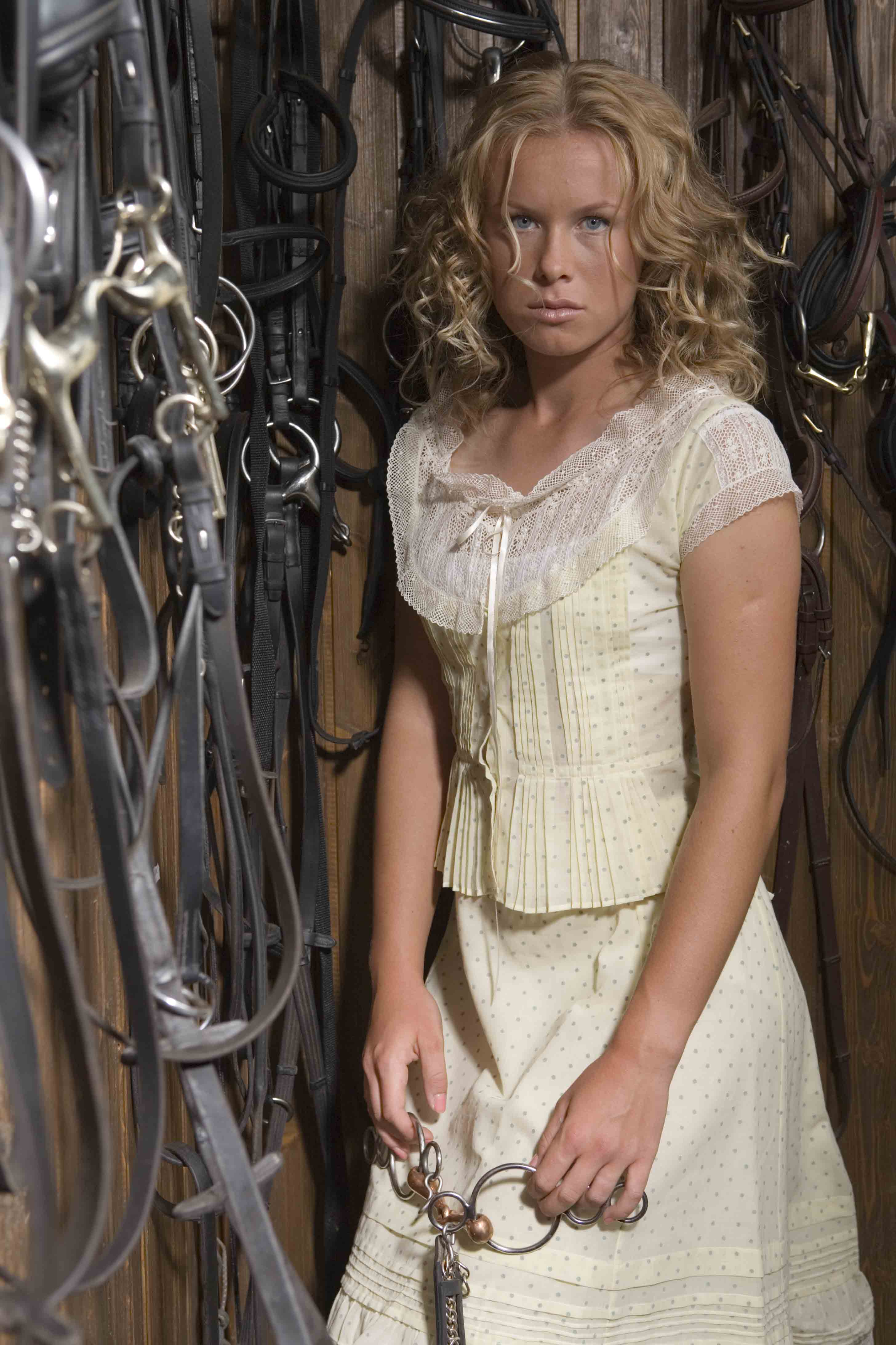 Vera Dushevina